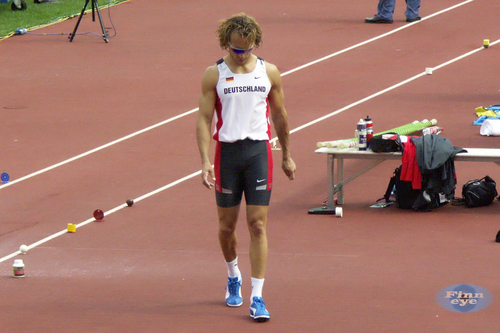 Tim Lobinger (GER), World championships Helsinki 2005. Mise en ligne le 25 juillet 2007